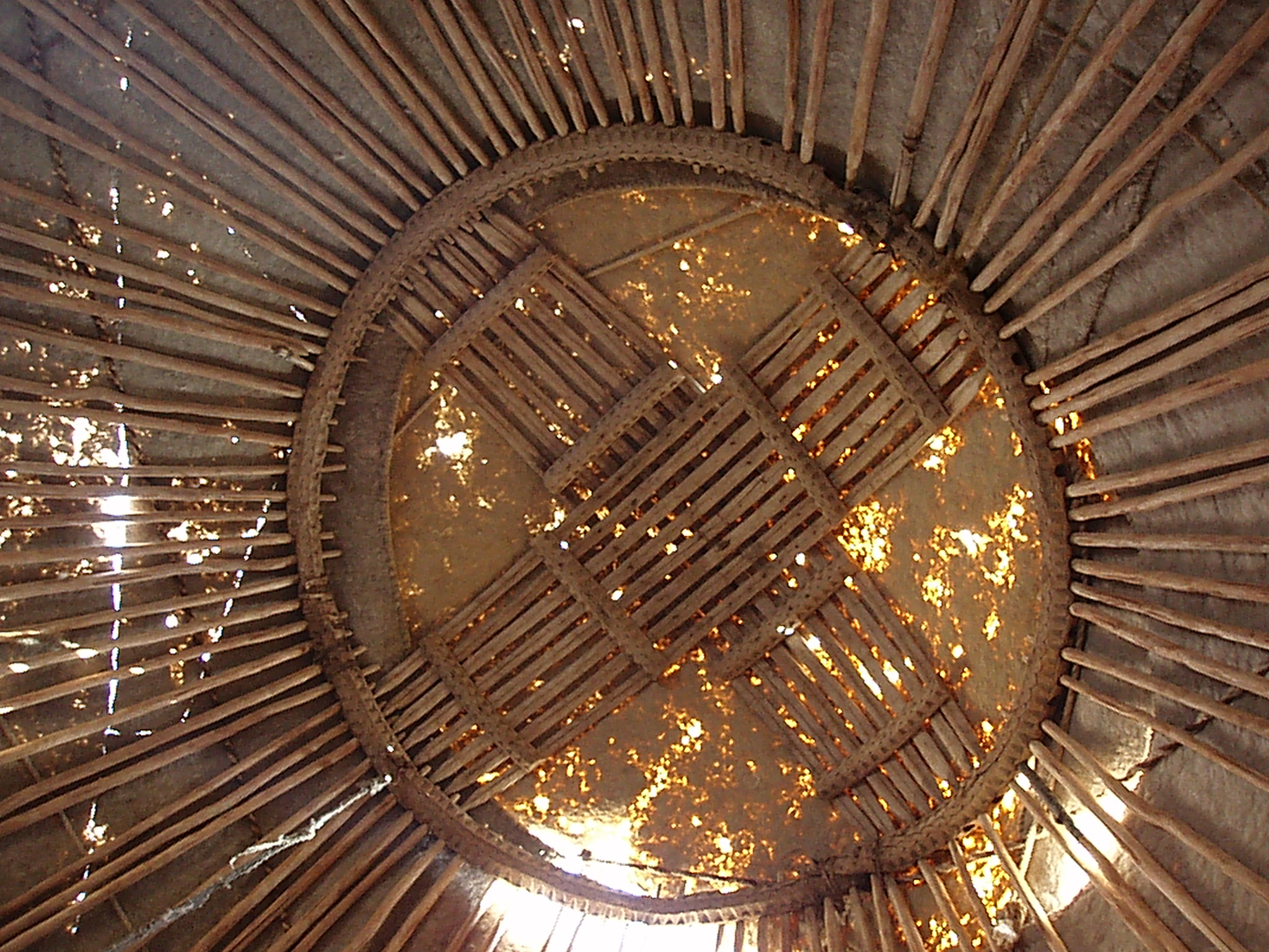 Shangrak, top of a Kazakh's yurt near Nurota, Uzbekistan